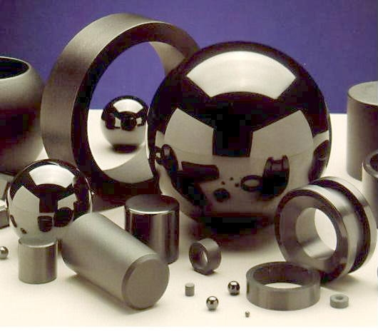 Si3N4 bearings and parts